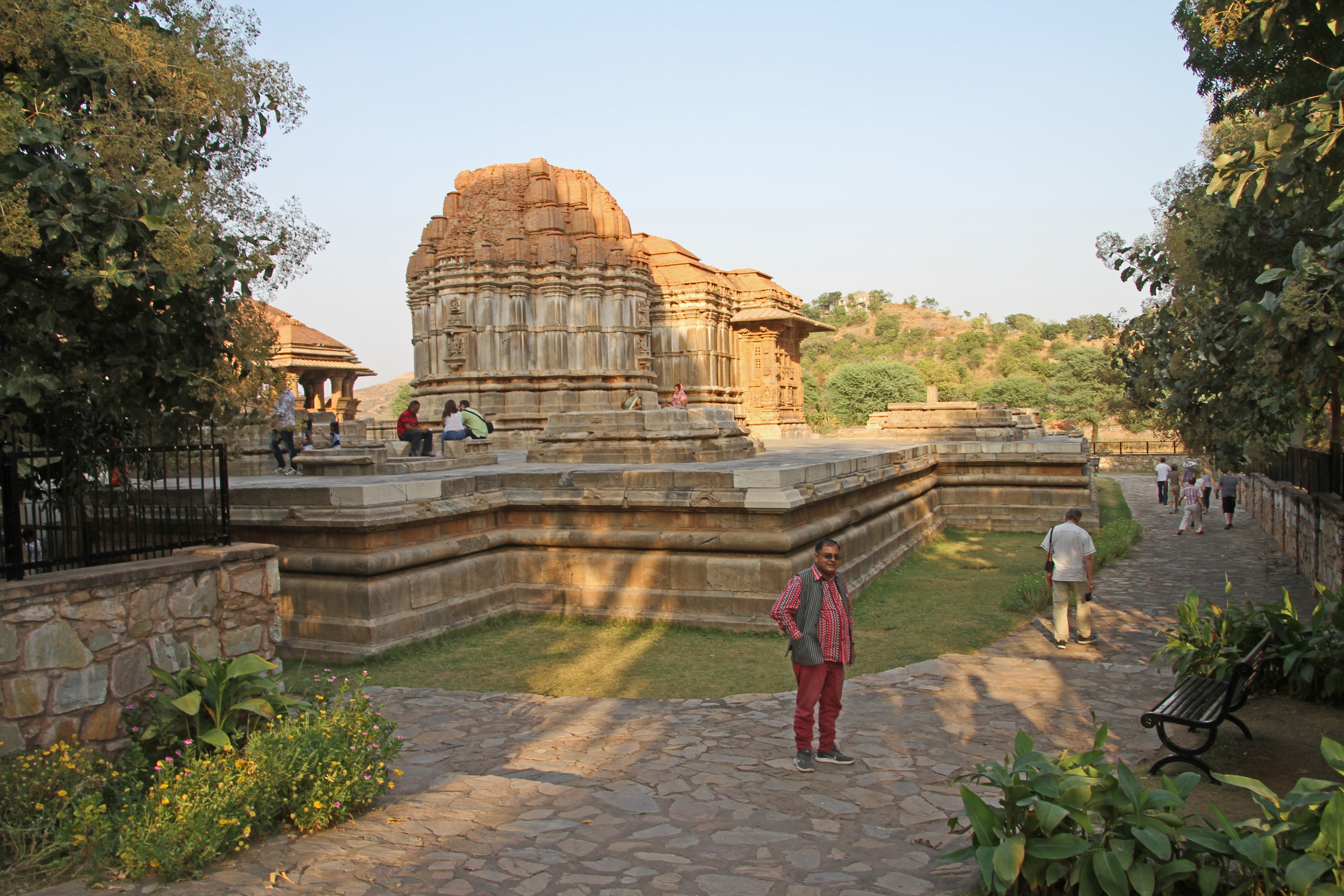 Nagda, Sas Bahu temple in India